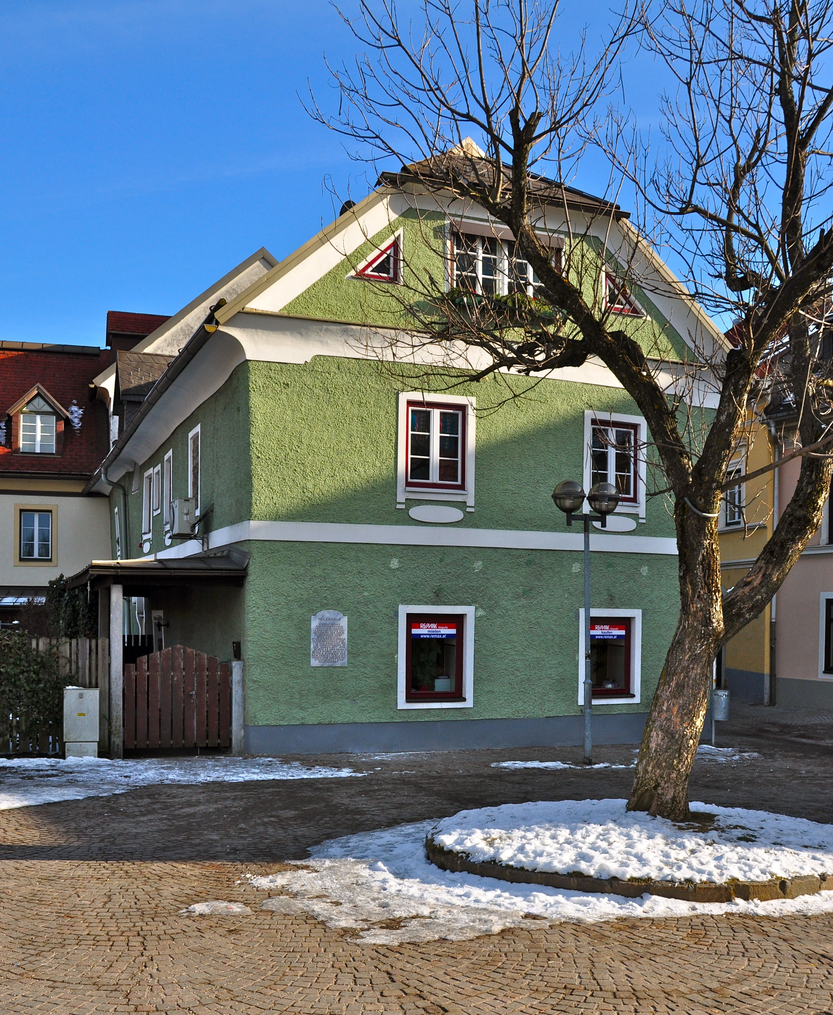 Late gothic Hegerhaus on Lederergasse #32, inner city, statutary city Villach, Carinthia, Austria, EU